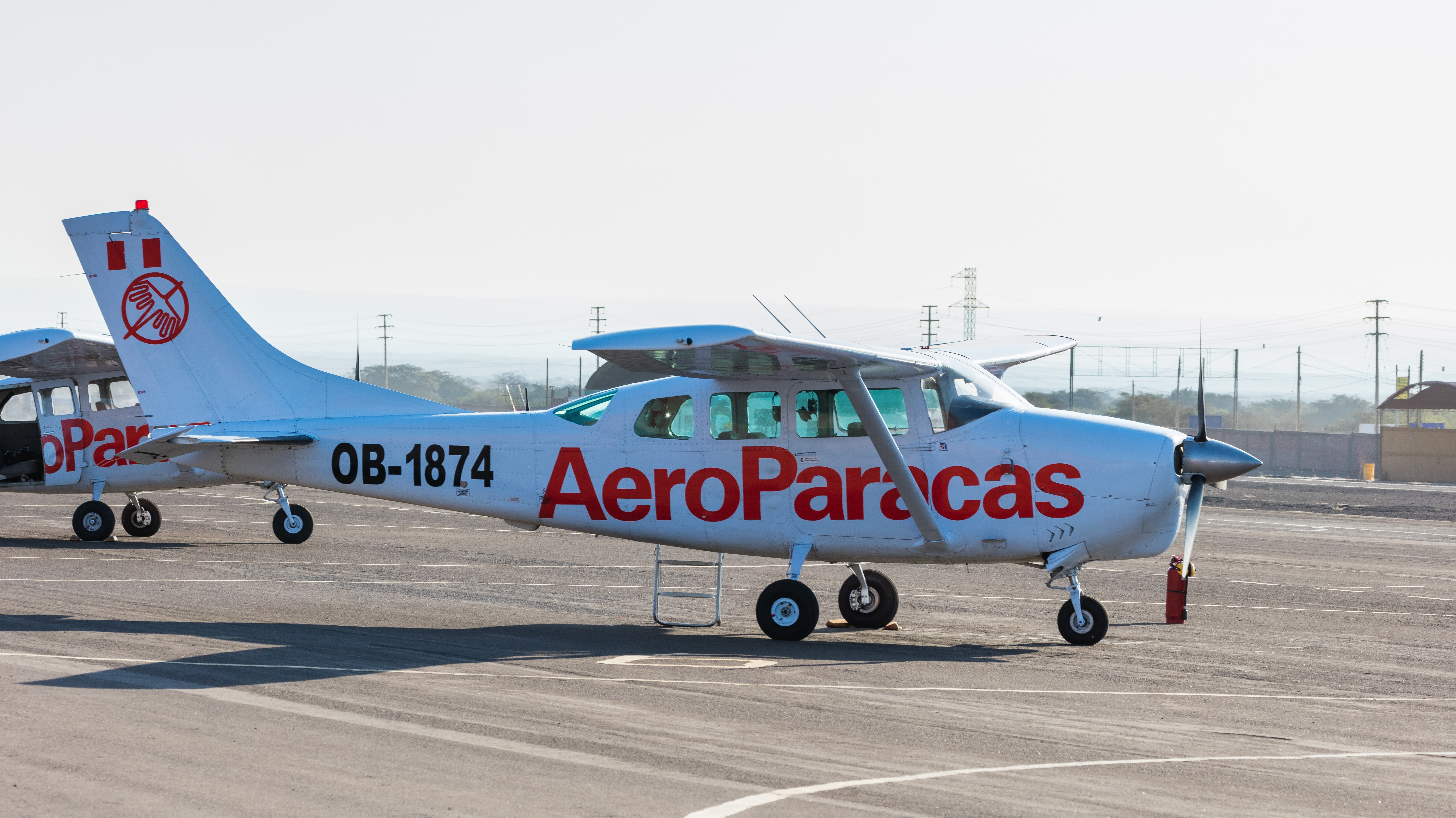 Airplane Cessna 205 in the Naza aerodrome, Peru